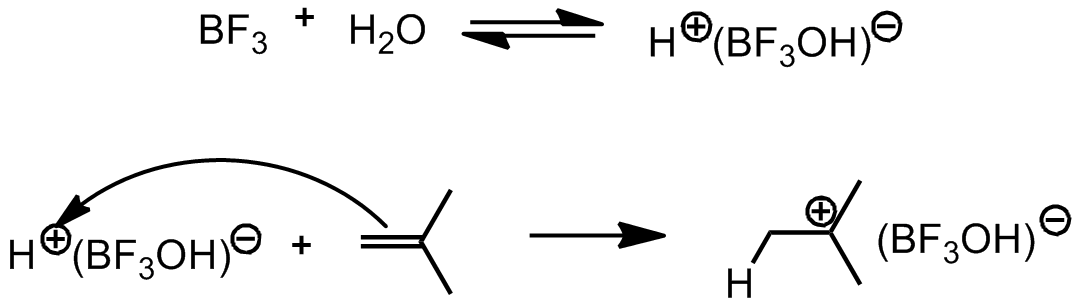 lewis acid initation